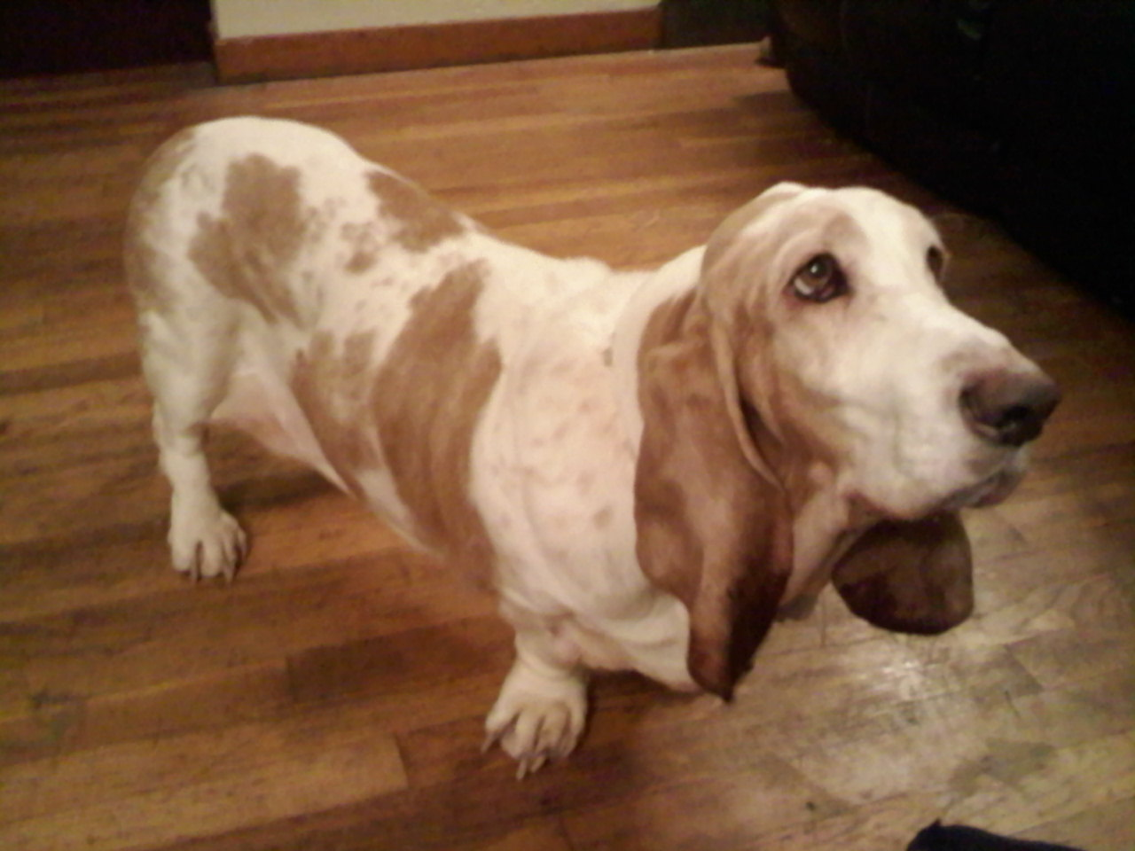 This is a full body shot of my 7 year old Purebred Lemon Basset Hound Lucy